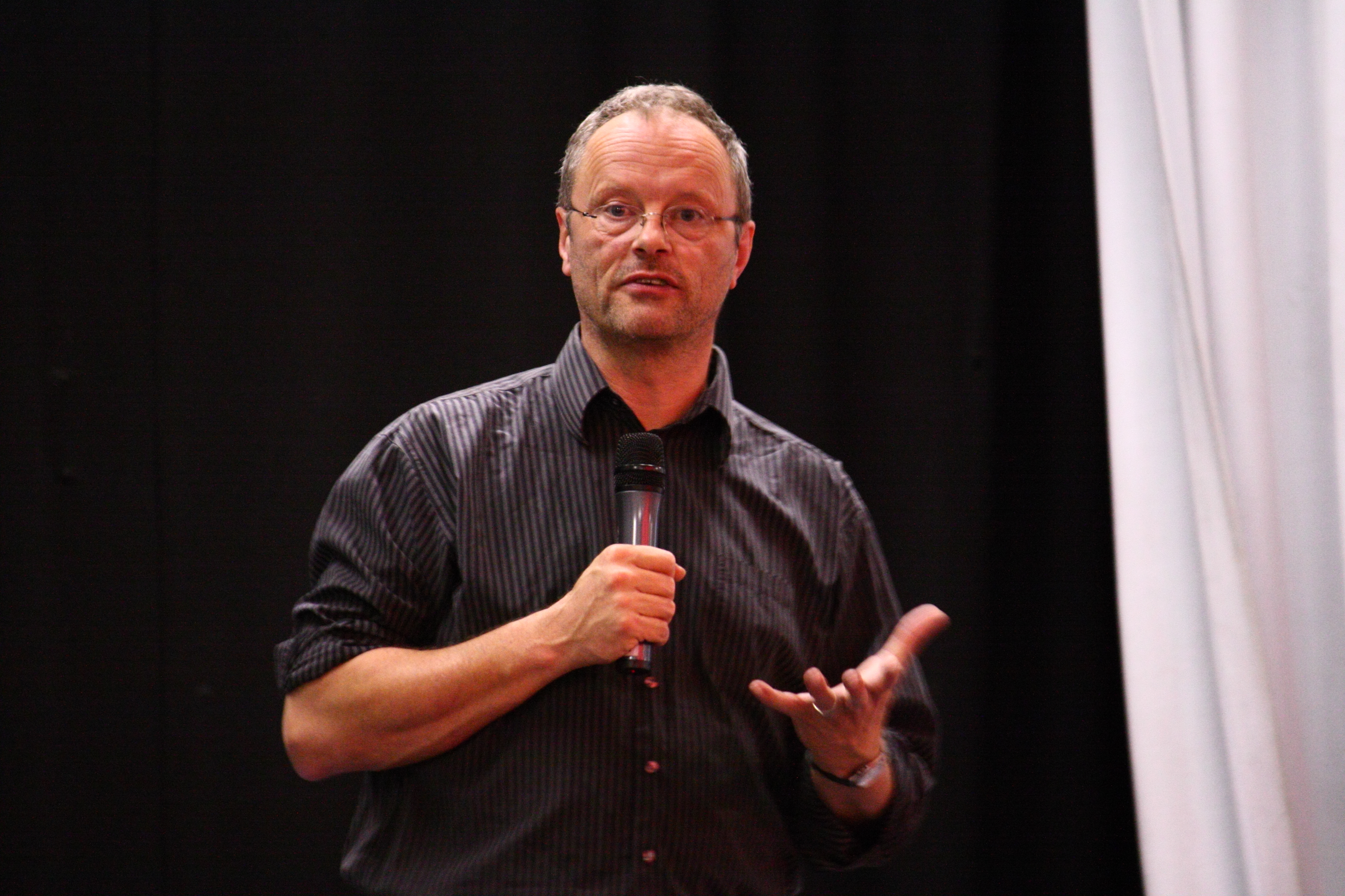 Robert Llewellyn aka Kryten from Red Dwarf at Dimension Jump XV, Birmingham UK